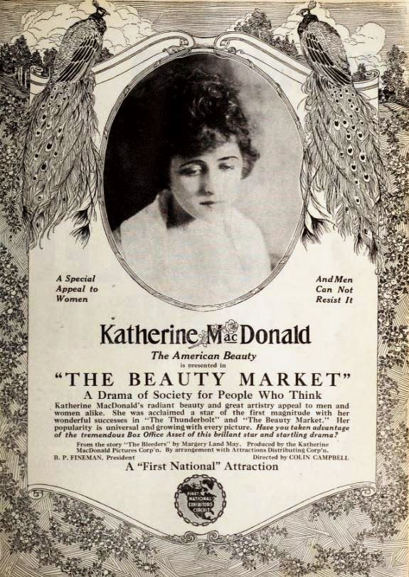 Advertisement for the American drama film The Beauty Market (1919) with Katherine MacDonald, on page 23 of the January 3, 1920 Exhibitors Herald.